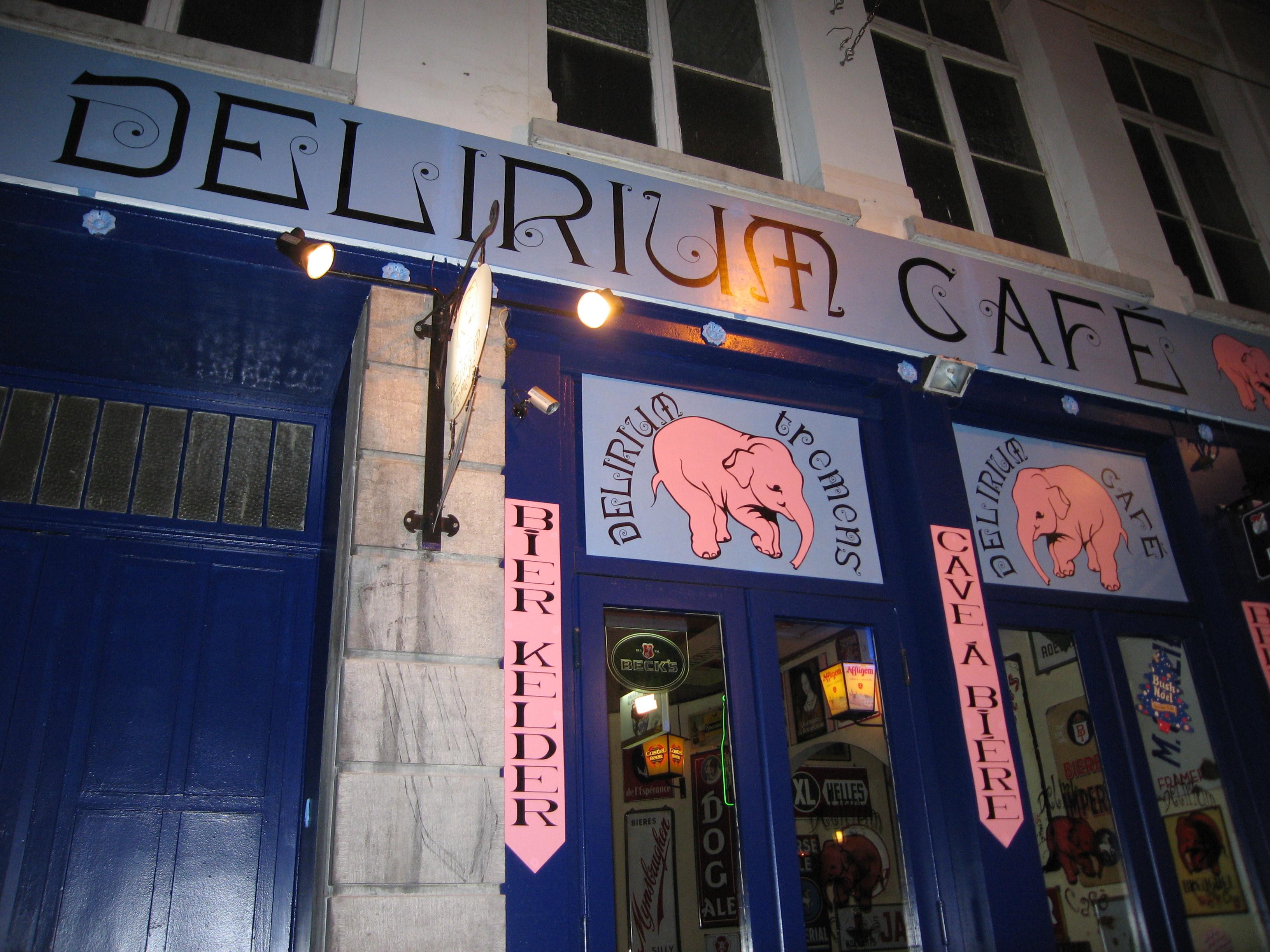 Exterior of Délirium Café